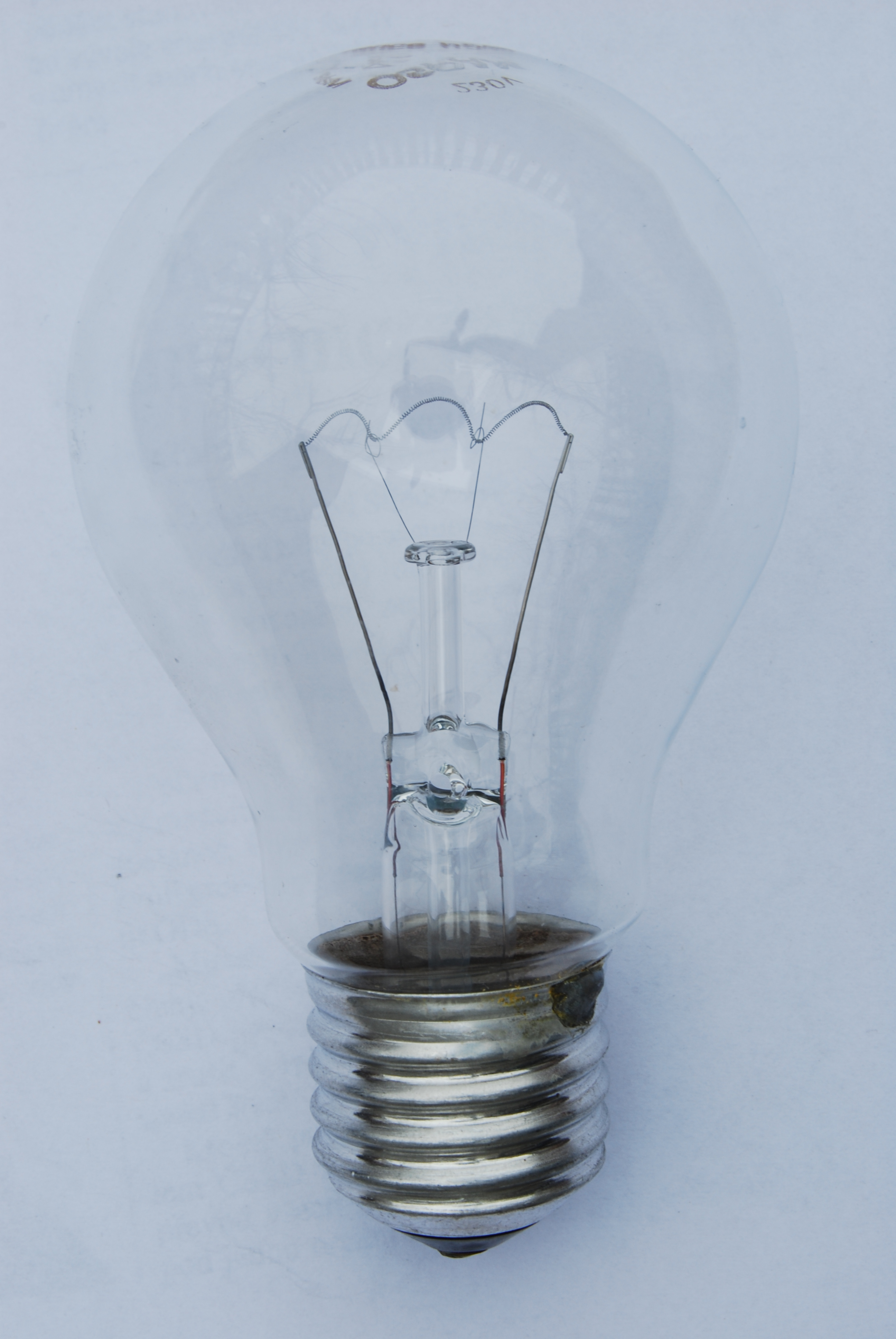 Electric bulb from OSRAM, 40 W